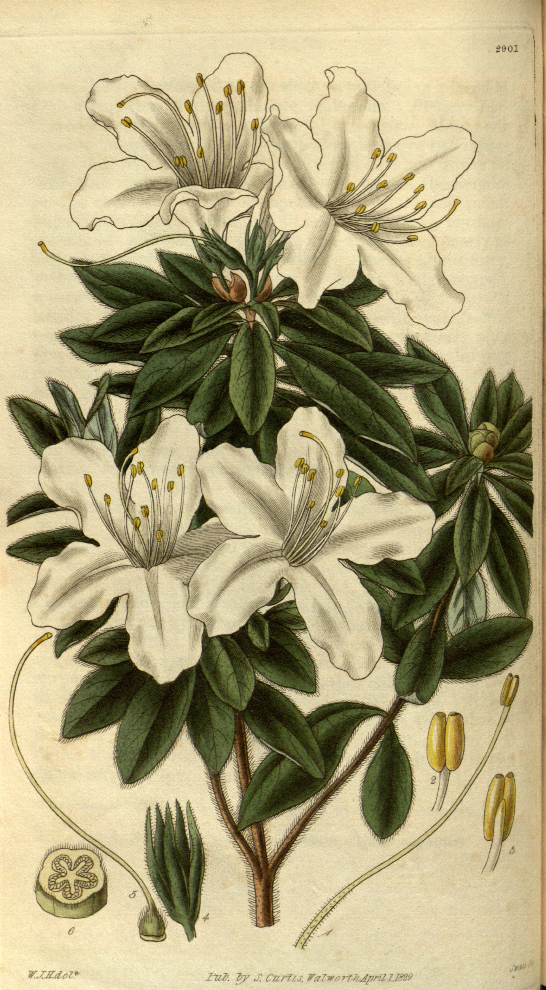 Rhododendron mucronatum, as Azalea ledifolia